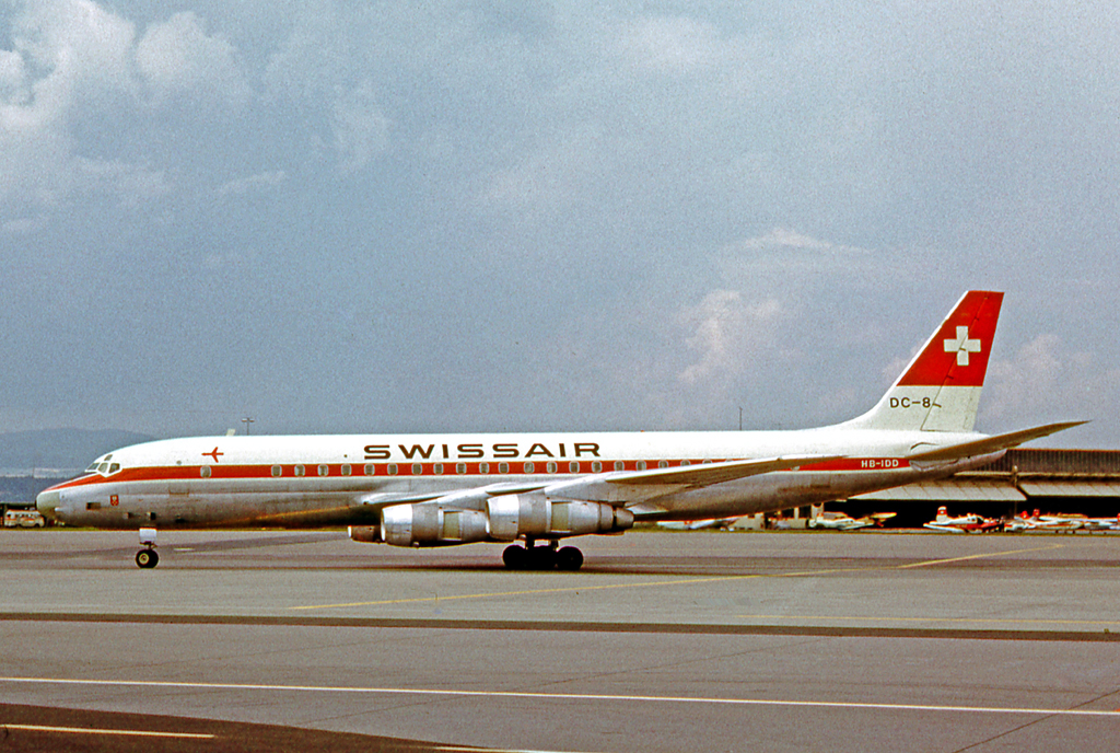 Douglas DC-8-53 HB-IDD of Swissair at Zurich (Kloten) Airport in 1965